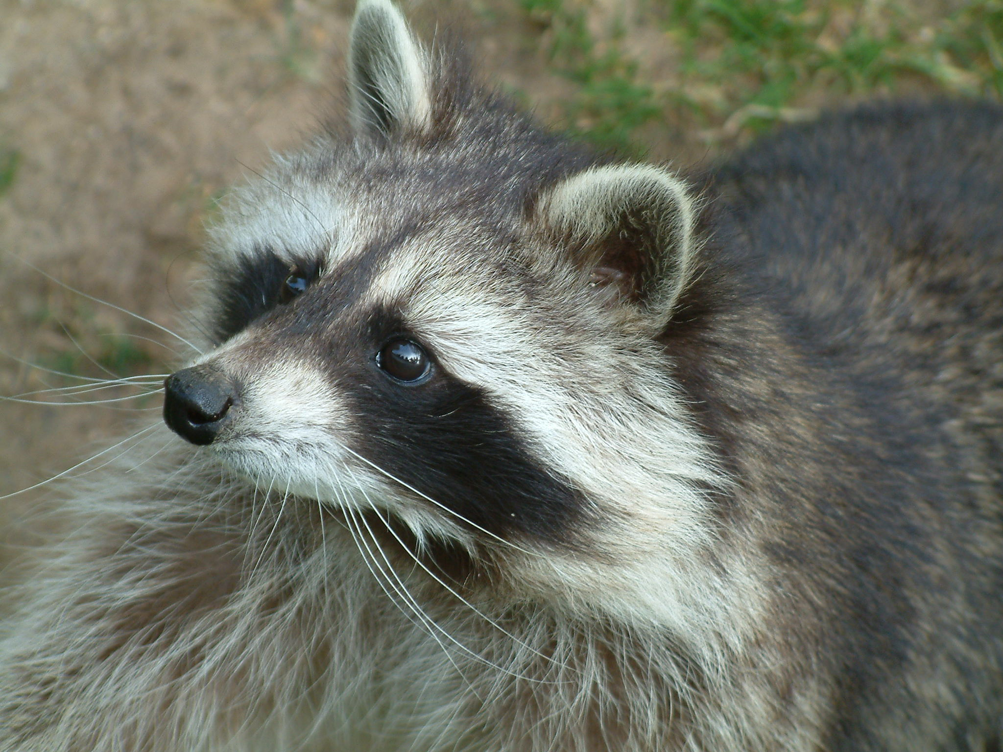 Raccoon, Procyon lotor, Waschbär